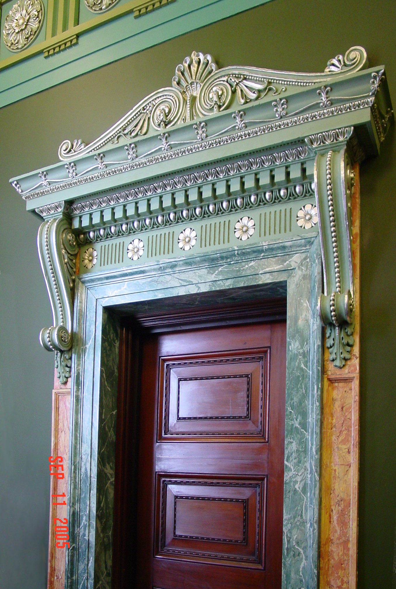 Interior of the restored Allen County Courthouse in Fort Wayne Indiana USA